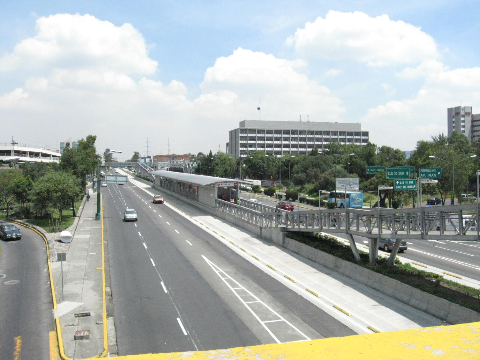 View of the part of the Southern section of Avenida Insurgentes, taken from a bridge of the Periferico, near the Perisur Mall. Shows MetroBus Station Perisur.